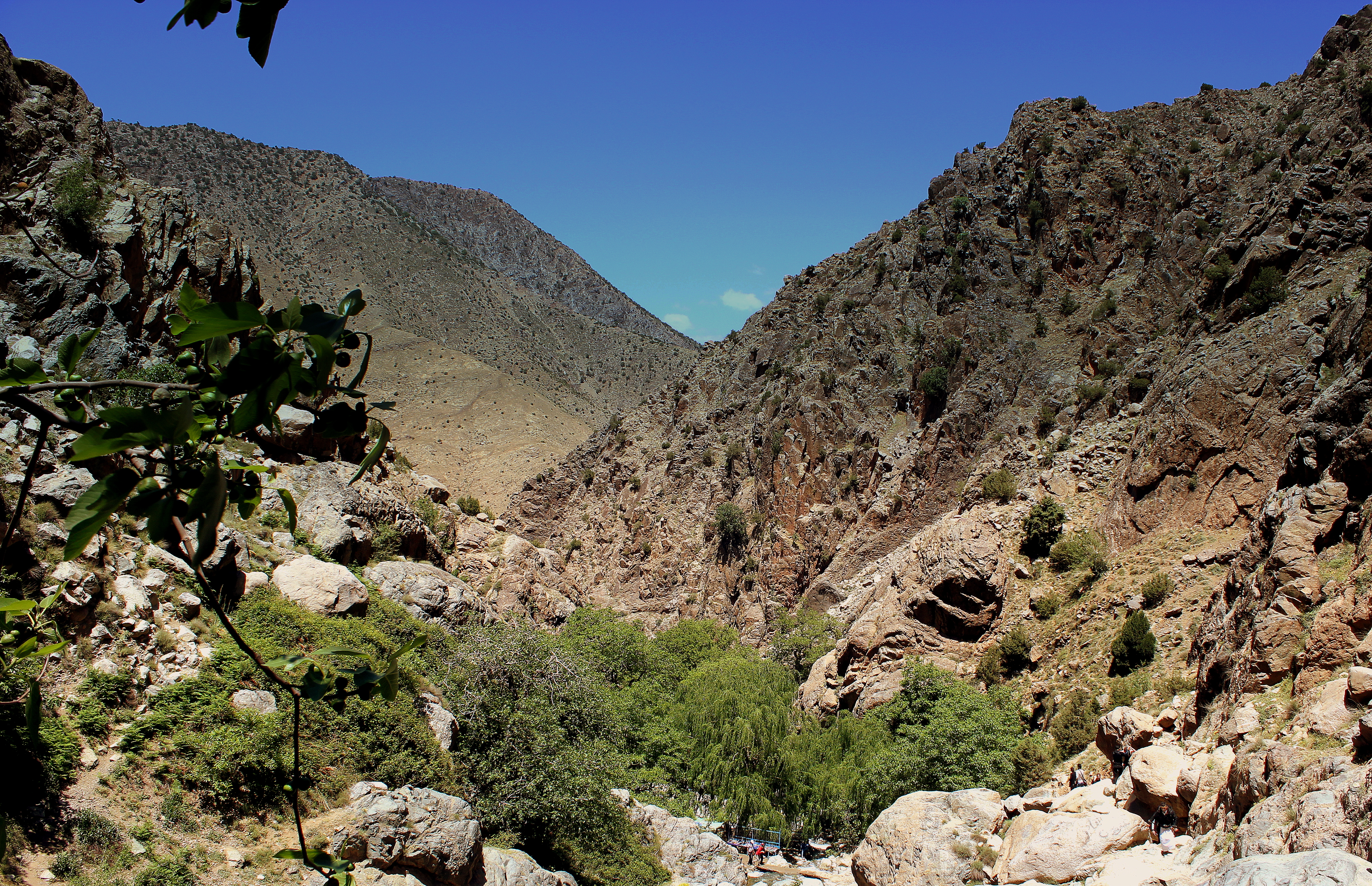 ATLAS MOUNTAINS MOROCCO APRIL 2013